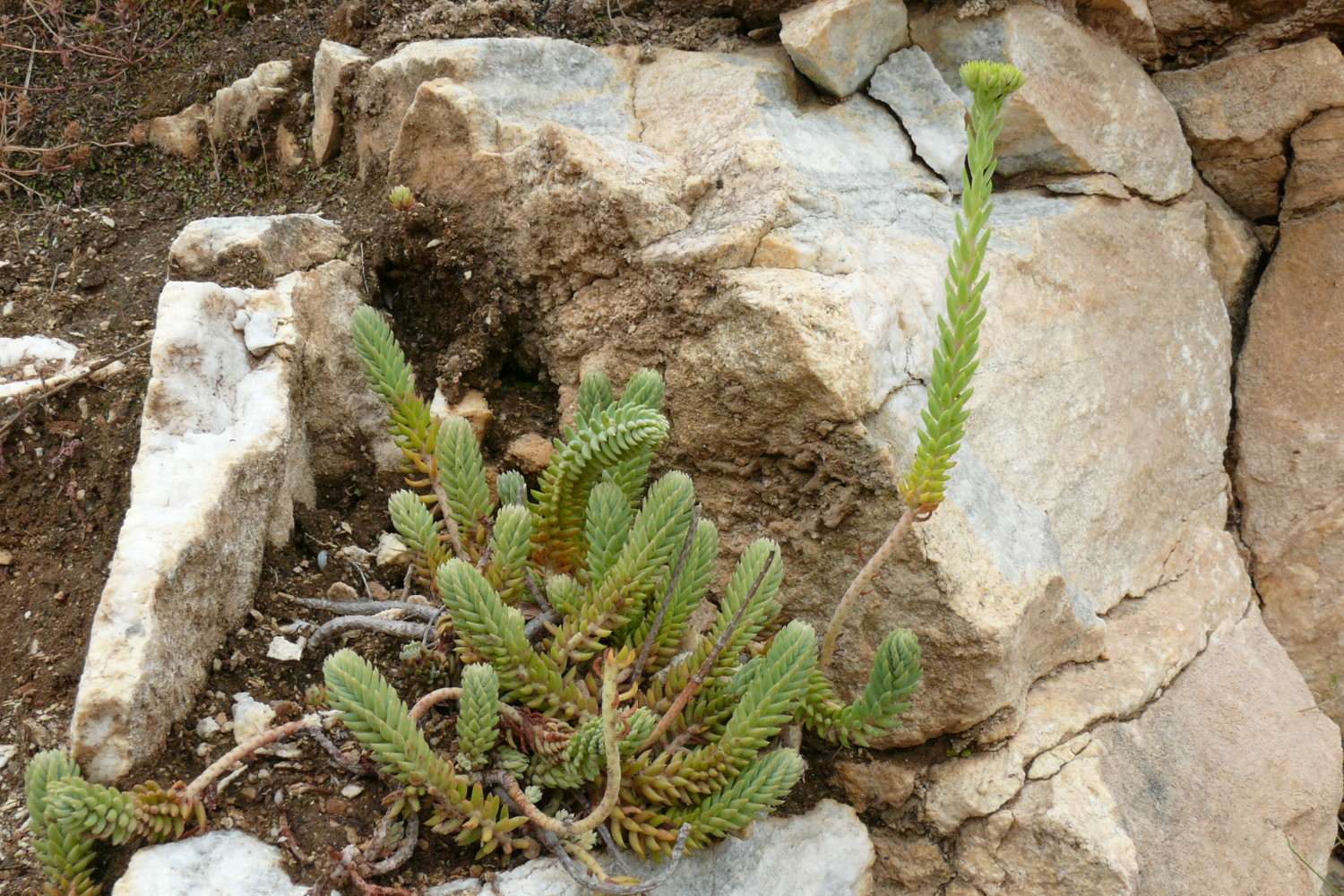 Sedum ochroleucum, Photo from Thasos